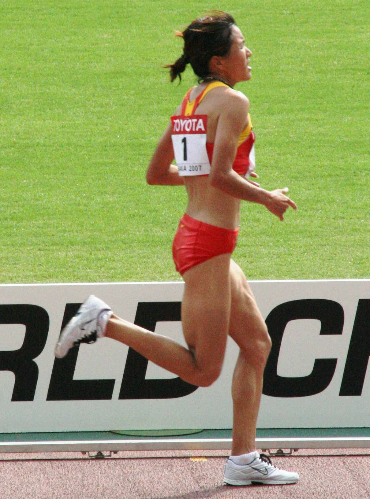 World Athletics Championships 2007 in Osaka - Silver medal winner Zhou Chunxiu on the last 50 metres of her race